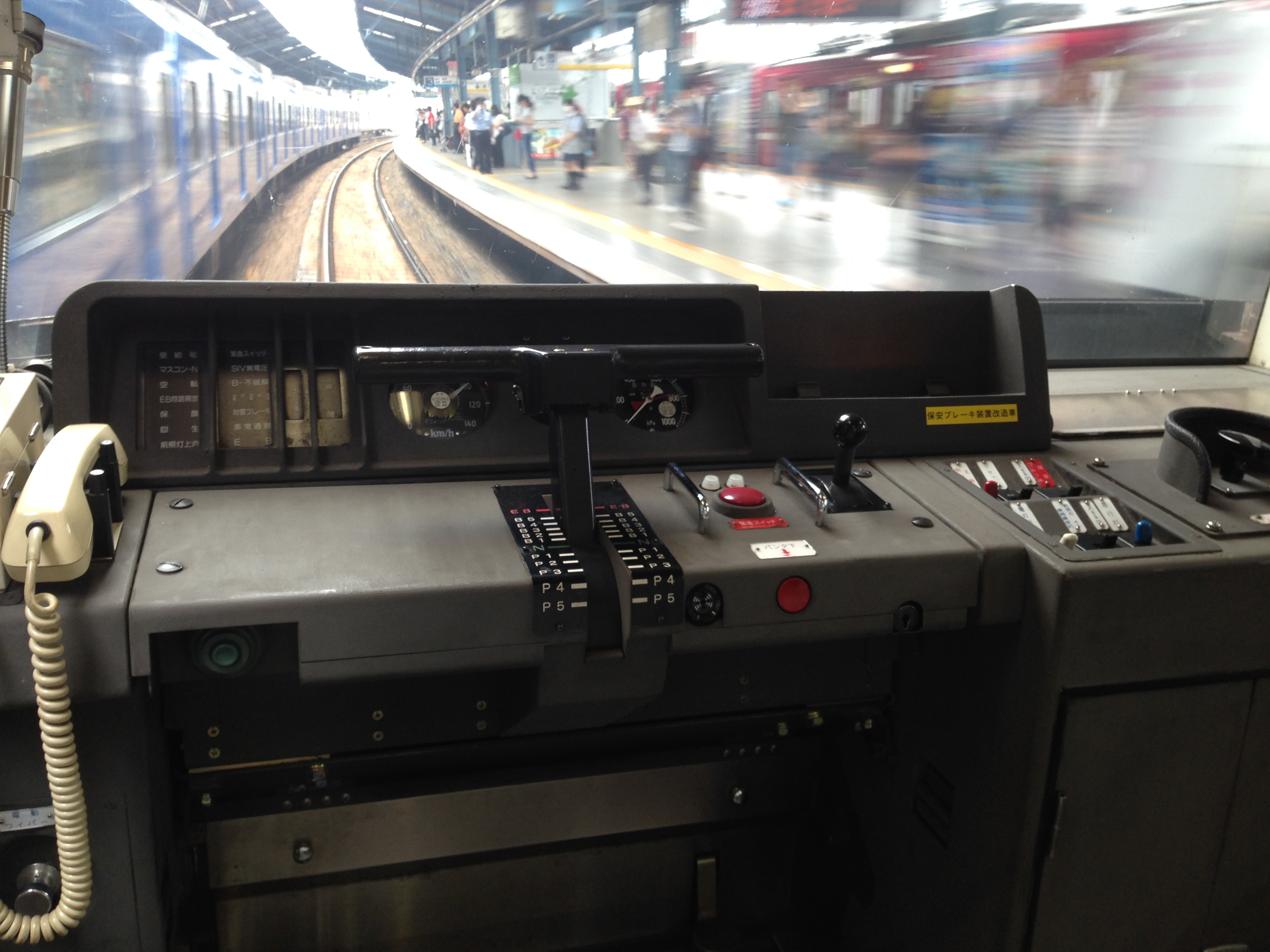 Keikyu 1001 driver's cabin passing Heiwajima station